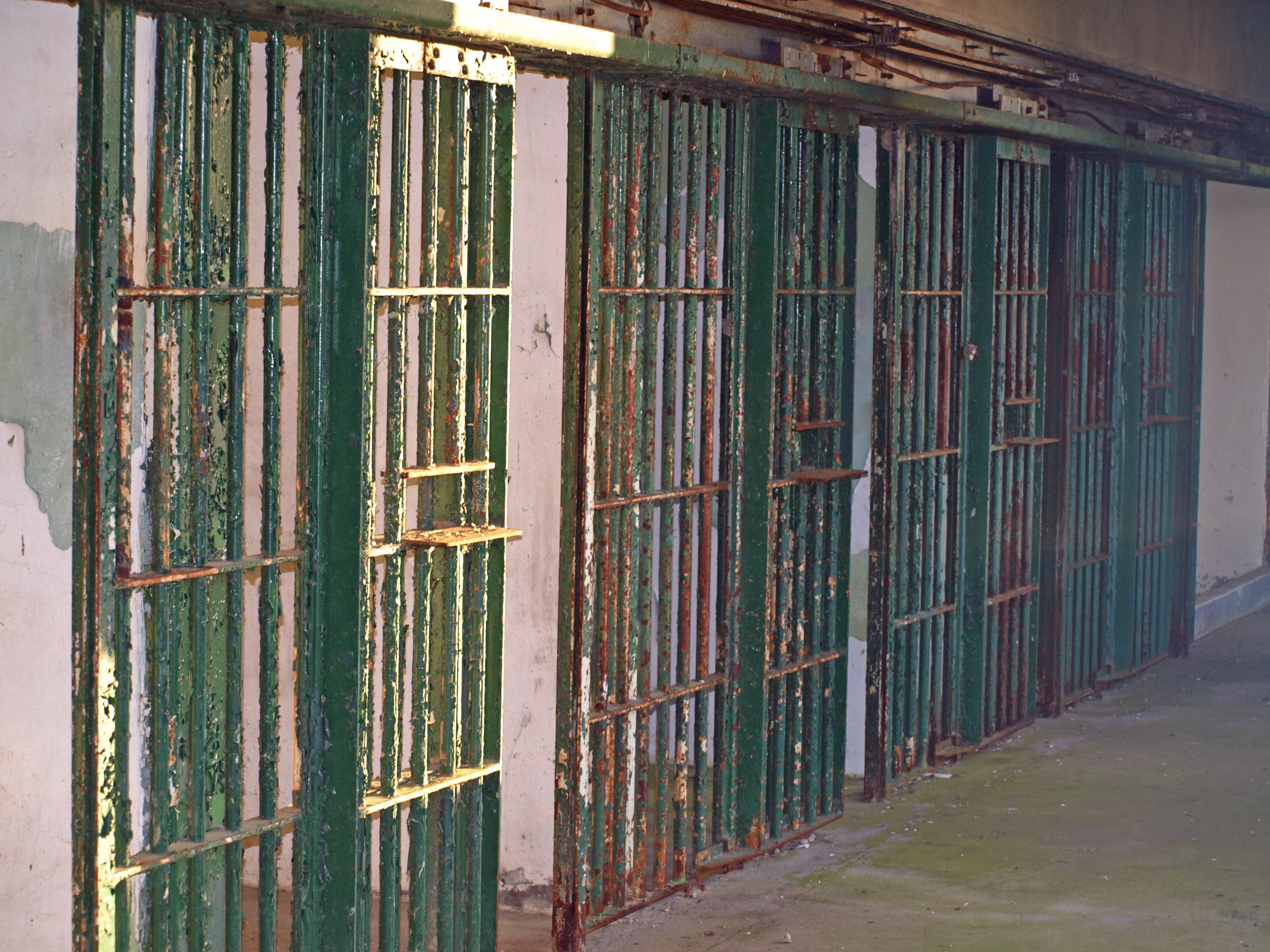 Camp H, Cellblock